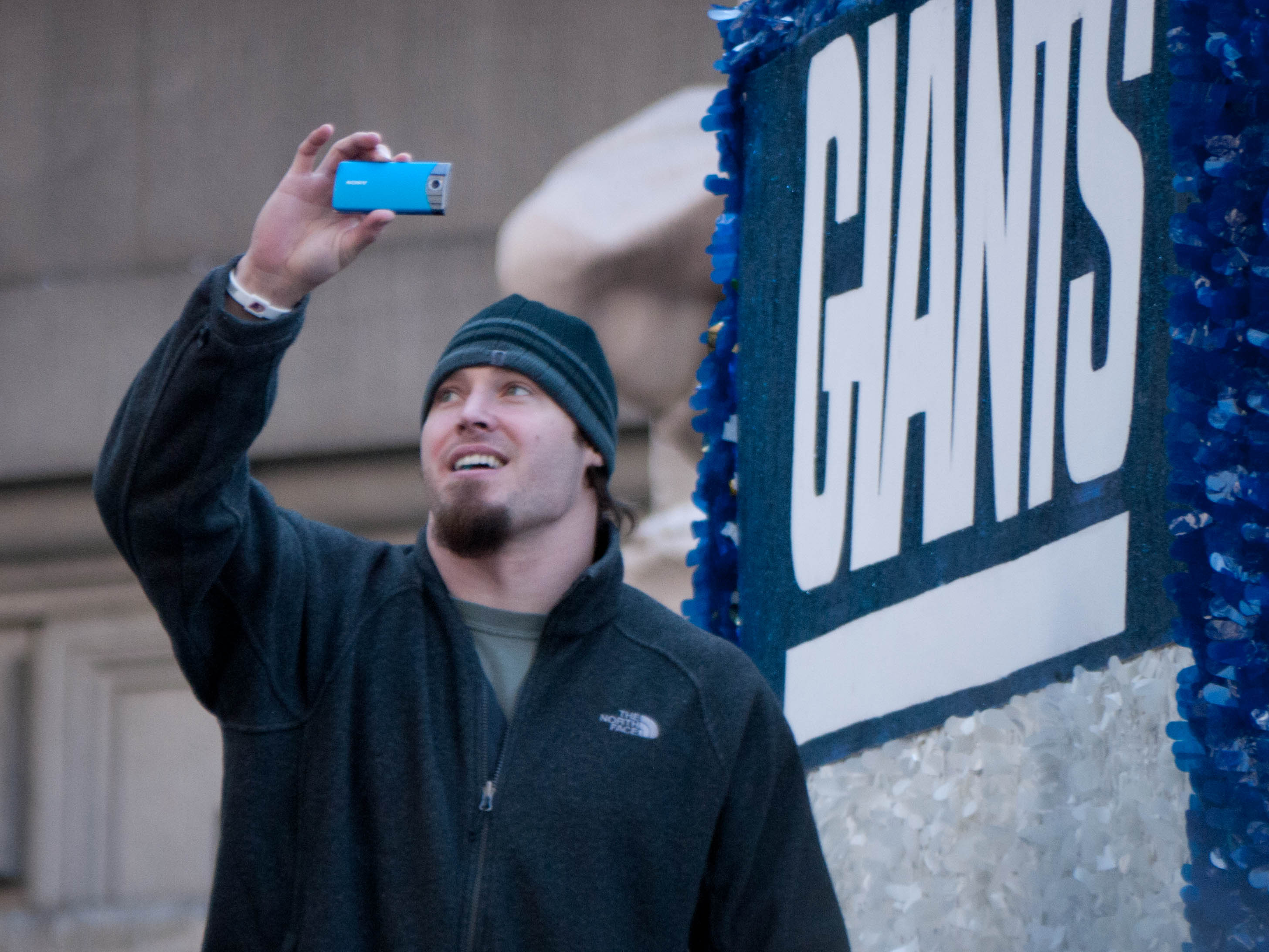 New York Giants linebacker, Chase Blackburn, celebrating after winning Super Bowl XLVI.